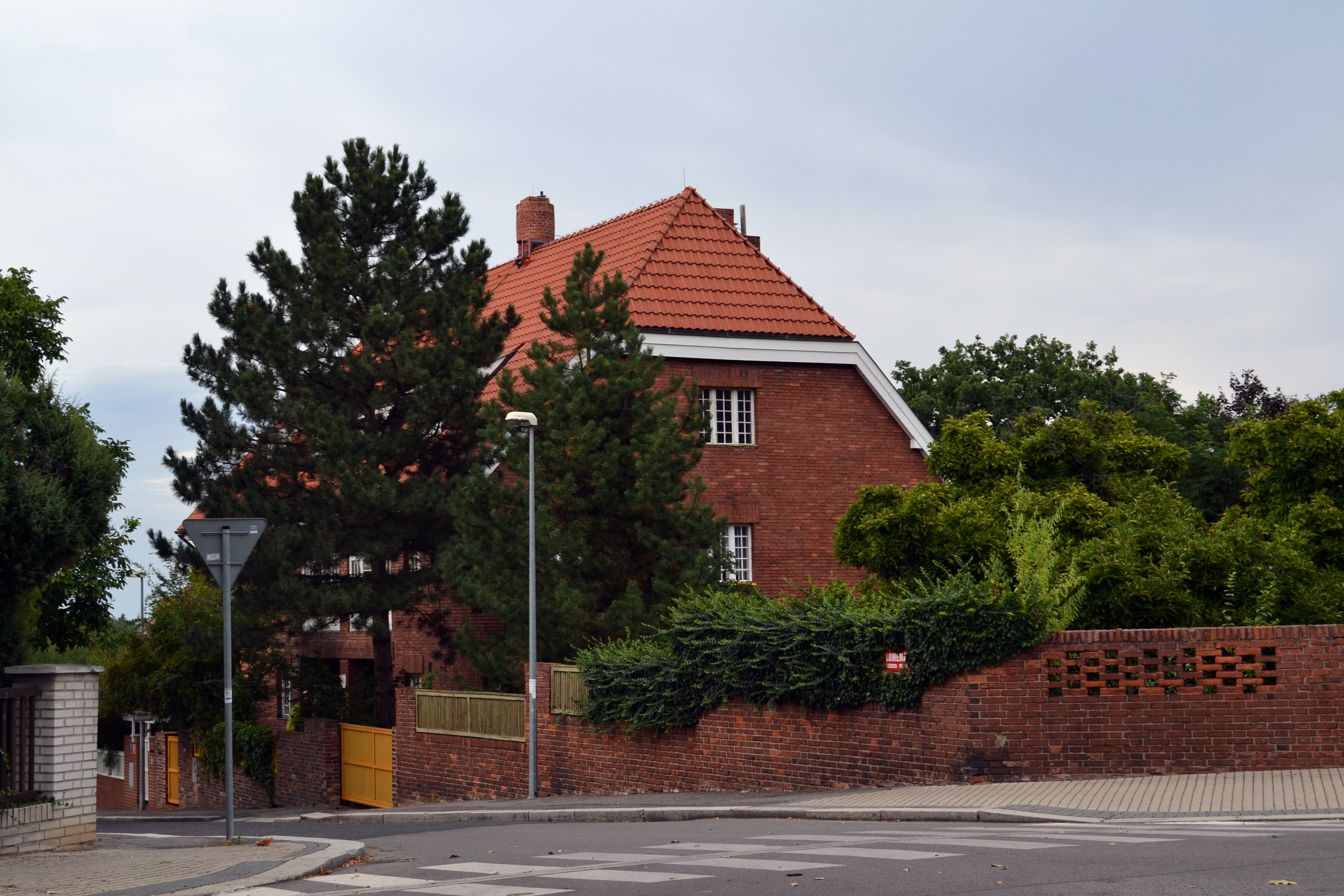 Villa of Emil Filla, Czech painter. Lomená 493/10, Střešovice, Prague 6, Czech Republic. View from Cukrovarnická street.